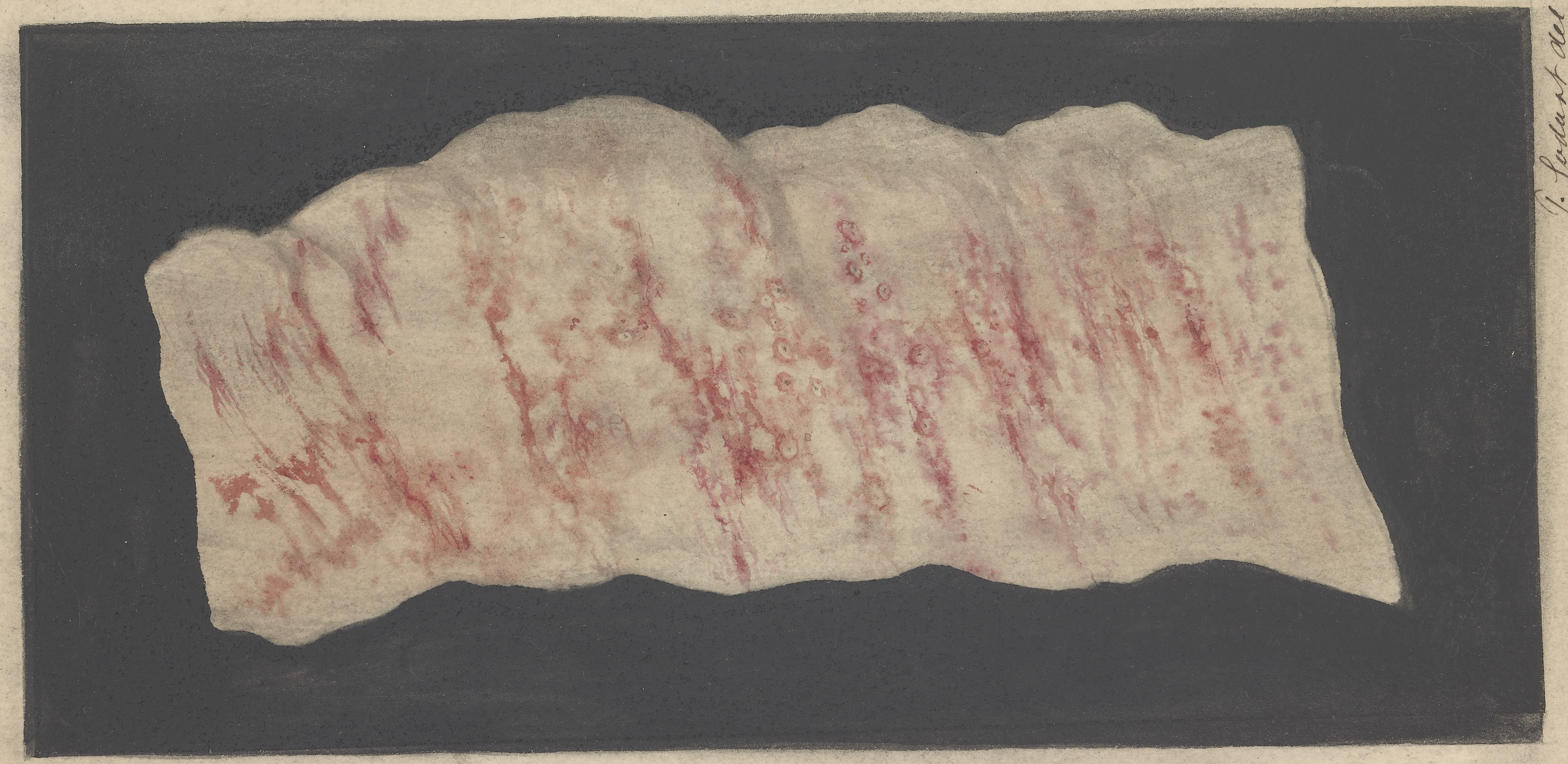 Watercolour and ink drawing of an intestine from a case of acute dysentery. From a girl, aged 12 months. Medical Photographic Library Keywords: Godart, Thomas